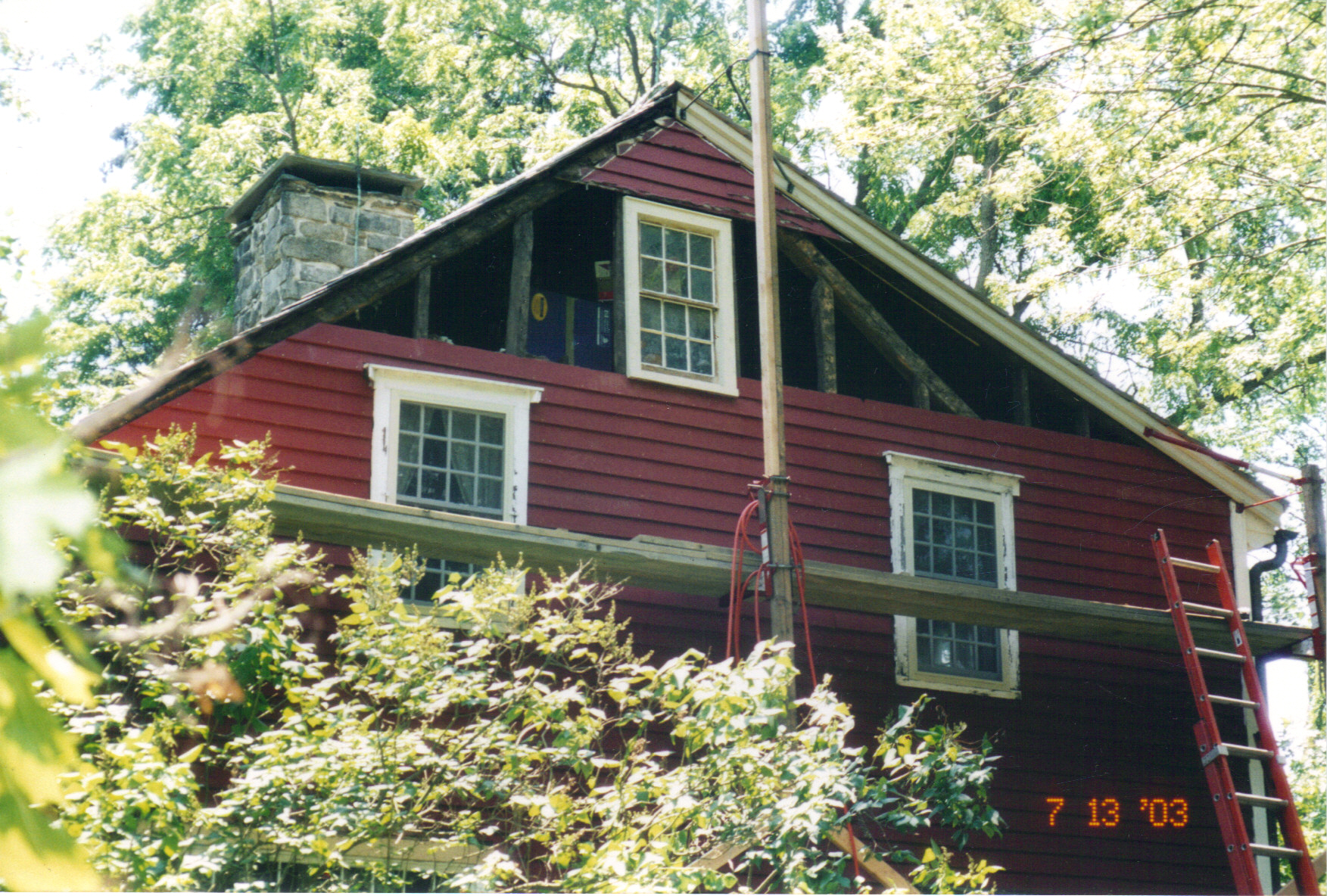 Image of circa 1670-1690 Ephraim Hawley House, Trumbull, Connecticut showing original rafter configuration view from north